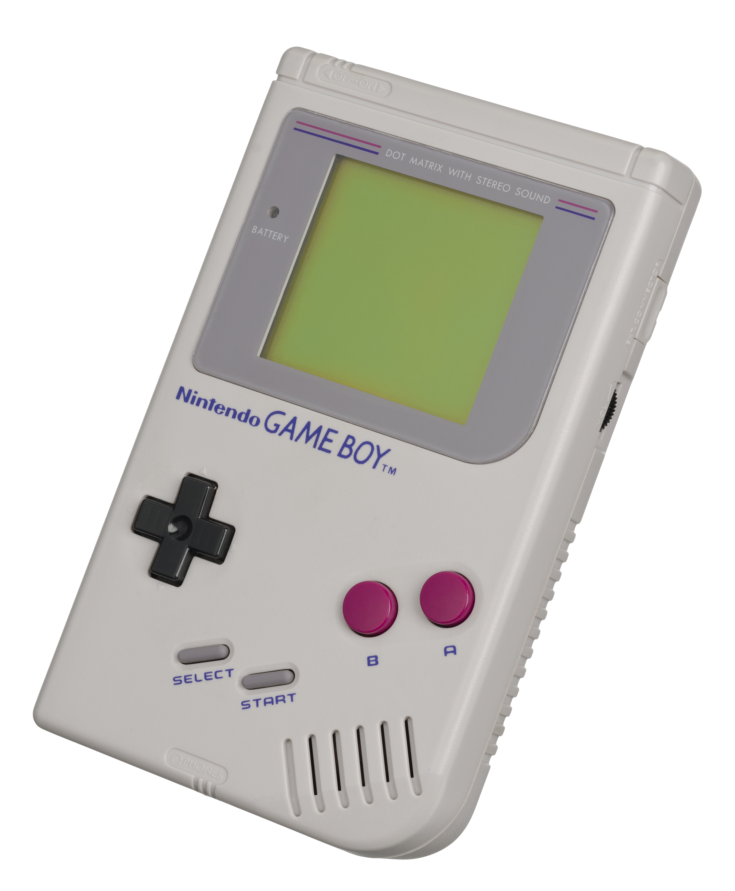 The Nintendo Game Boy, a handheld gaming console released in 1989. The relatively simple and monochrome Game Boy faced off against multiple handhelds and dominated the portable gaming market for almost a decade. This system has a 4.19 MHz CPU, a 4-shade LCD and ran off of 4 AA batteries. It was a very long-running system, only seeing a minor upgrade with the Game Boy Pocket in 1996, then later the Game Boy Color in 1998.